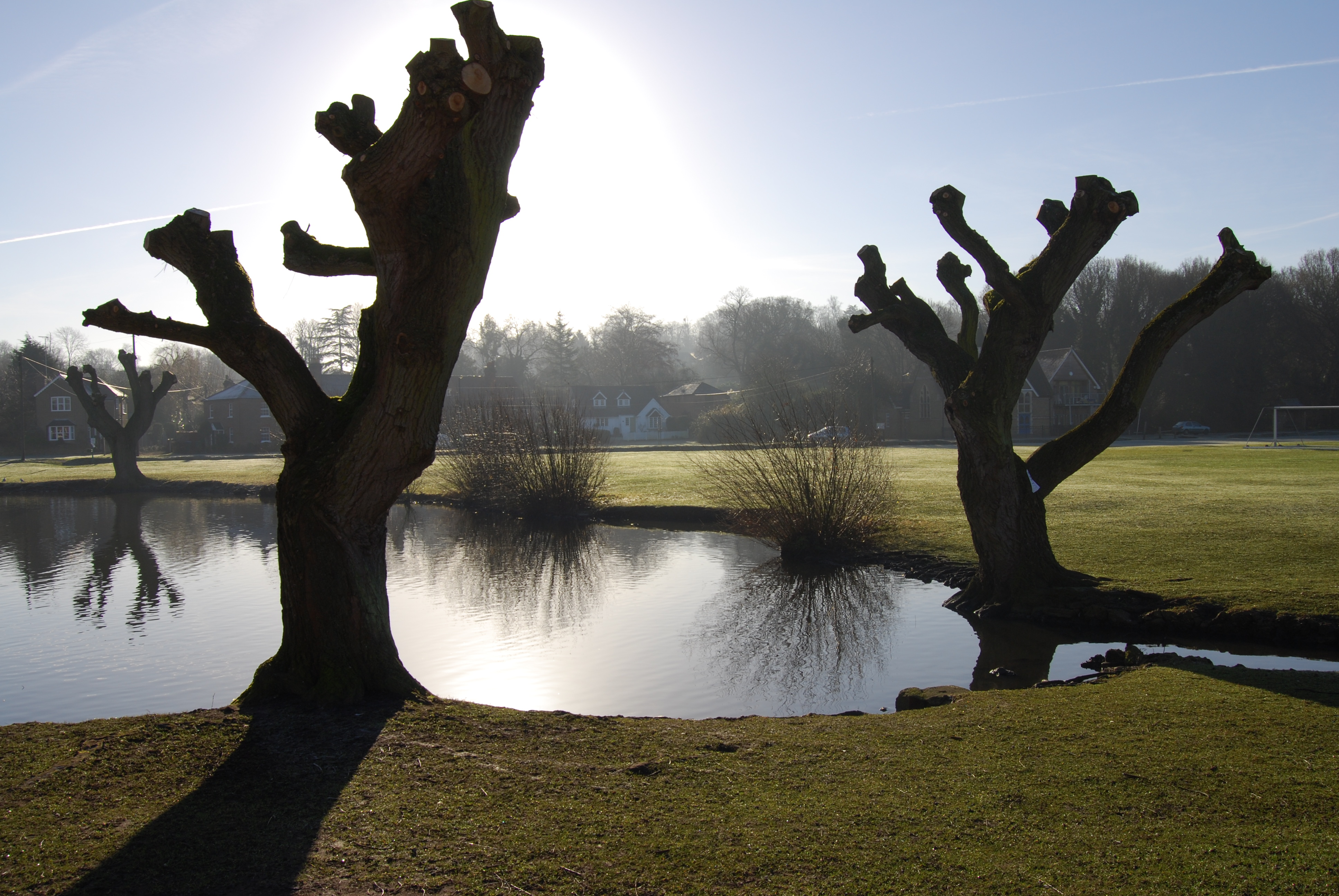 Photograph of the village pond at West End, Esher, taken 8th February 2011